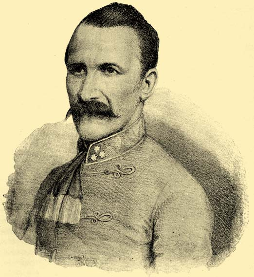 Móric (Moritz) Pálffy count of Erdőd (1812-1897), Austrian imperial field marshal lieutenant, Austrian military governor of Hungary from 1861 to 1865